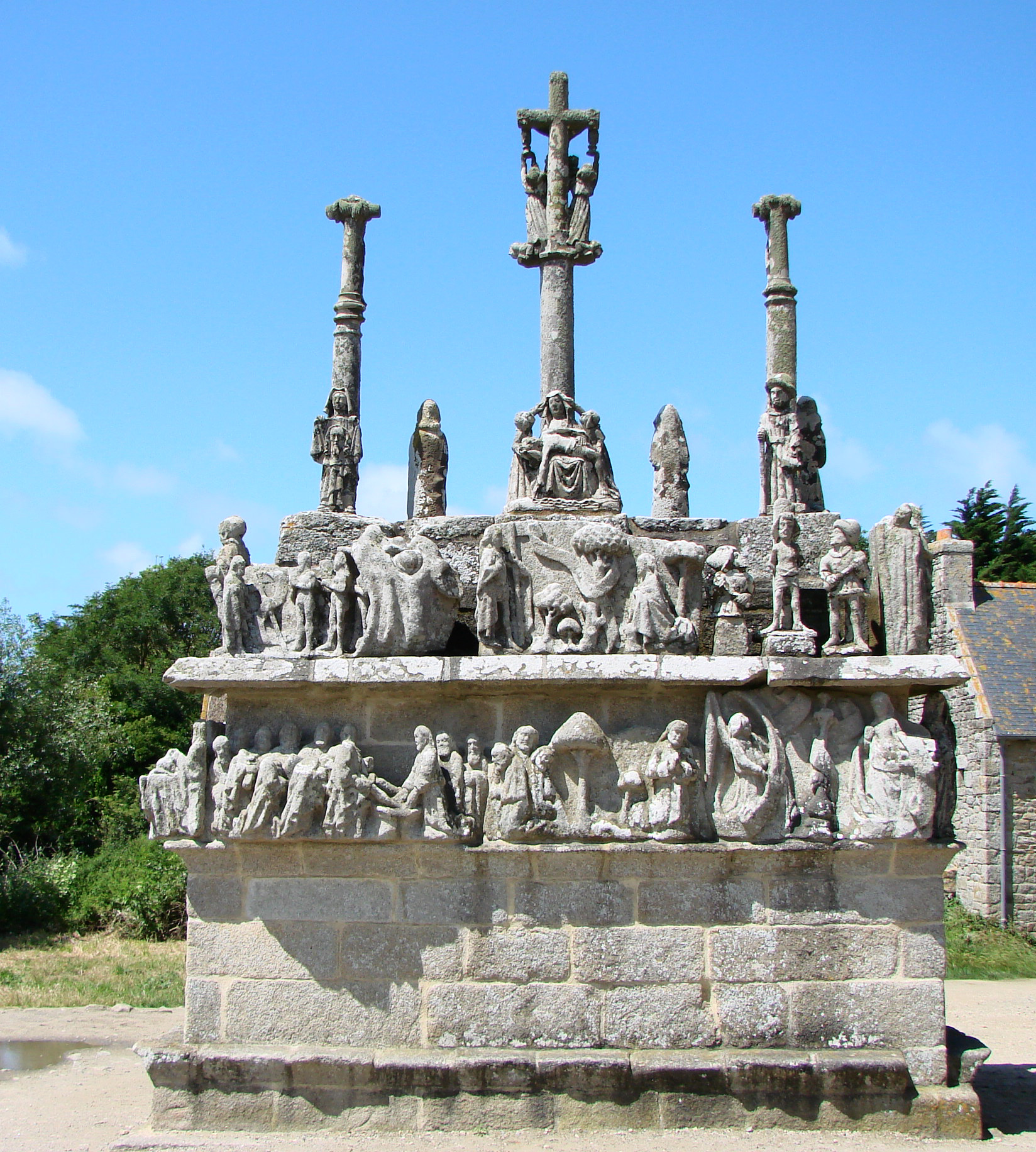 The calvaire of Notre-Dame de Tronoën. 15th century.